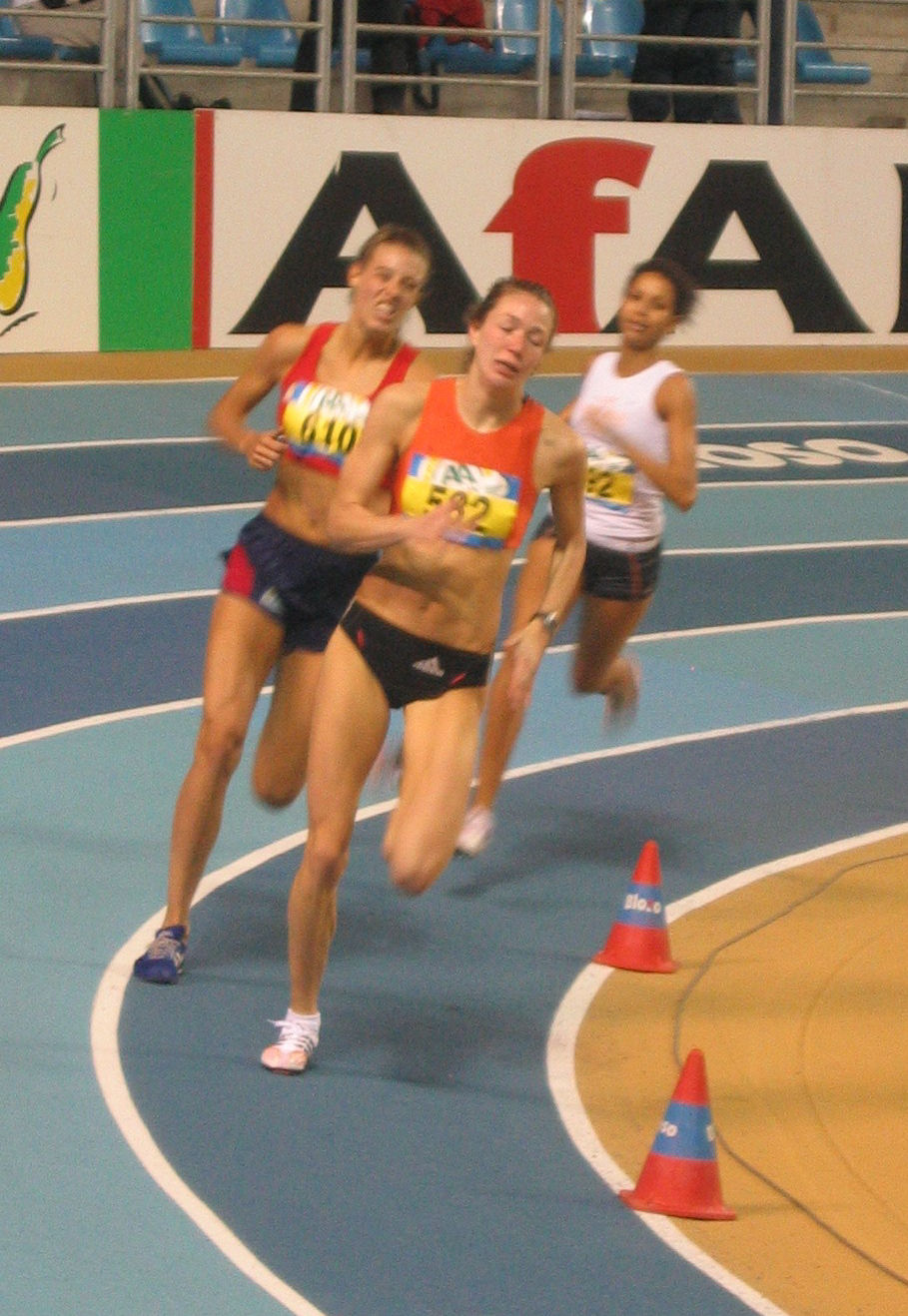 Yvonne Hak at Dutch indoor championships '08, Gent